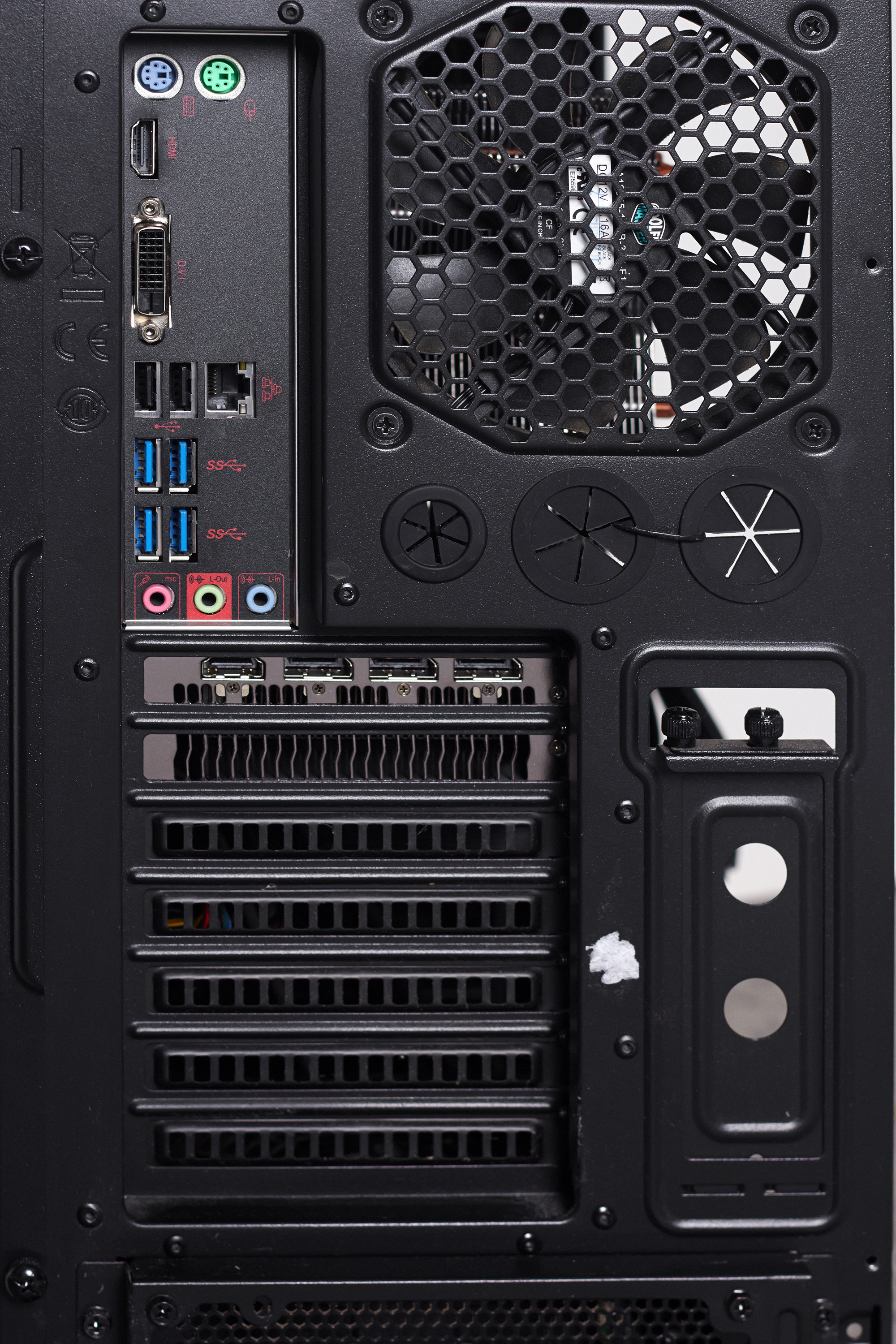 ATX Computer cases, back view.